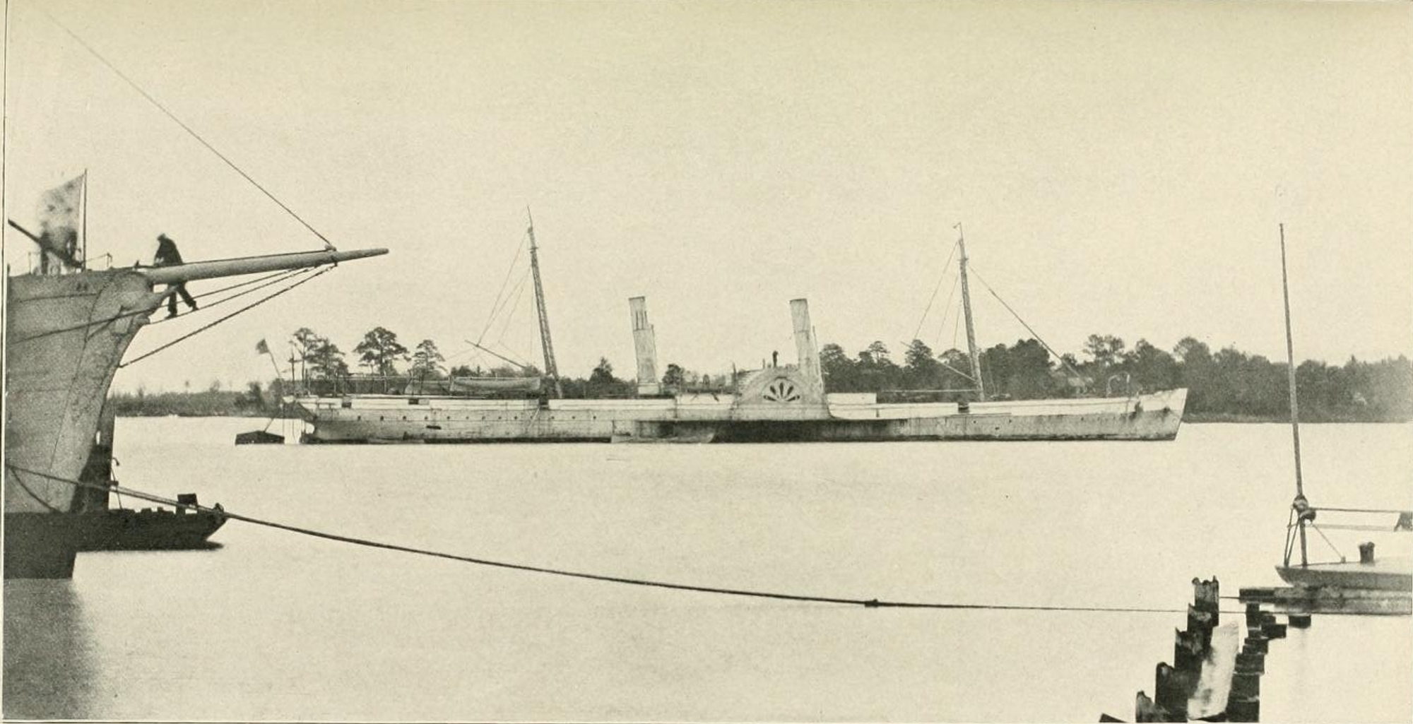 CSS Robert E. Lee See companion photo: File:BlockadeRunnerRobertELee.jpg